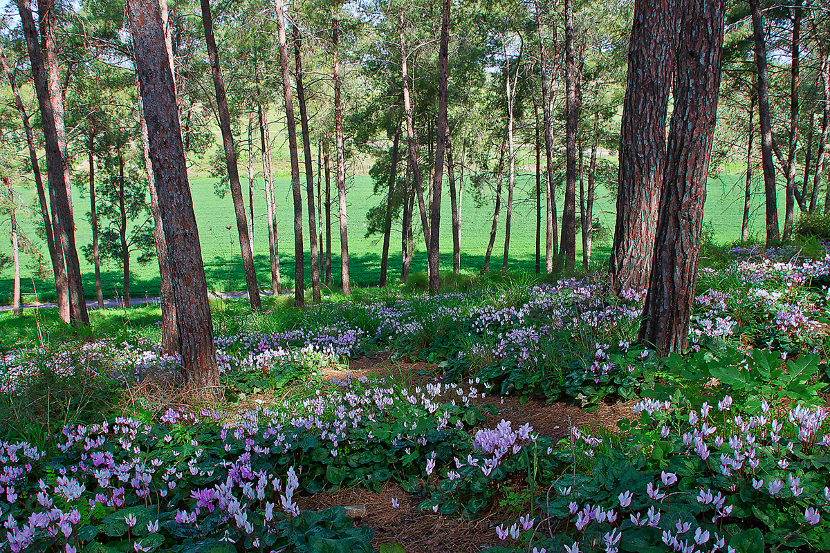 Plants of Israel